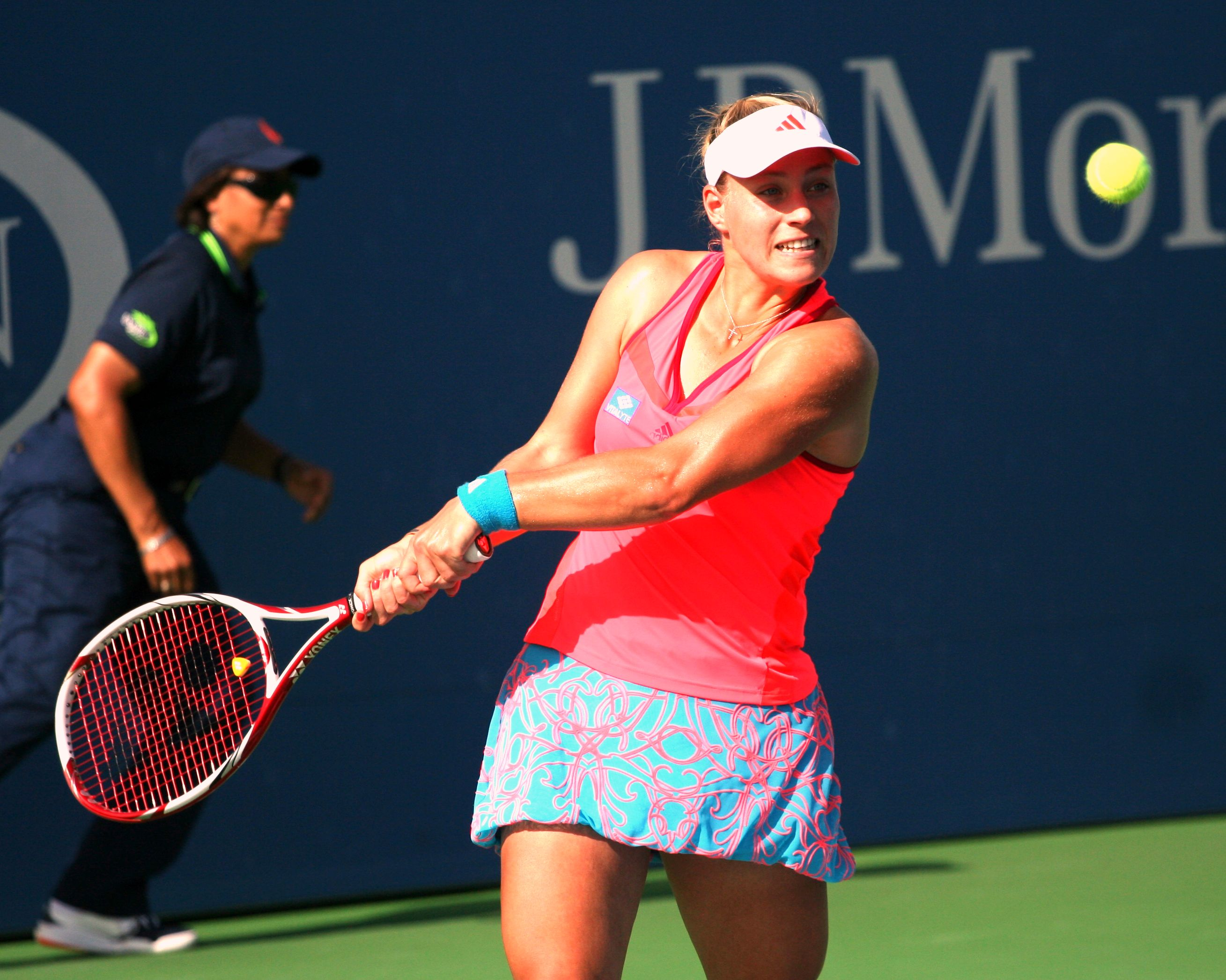 Angelique Kerber at the 2011 U.S. Open - Thursday, Sept. 8, 2011